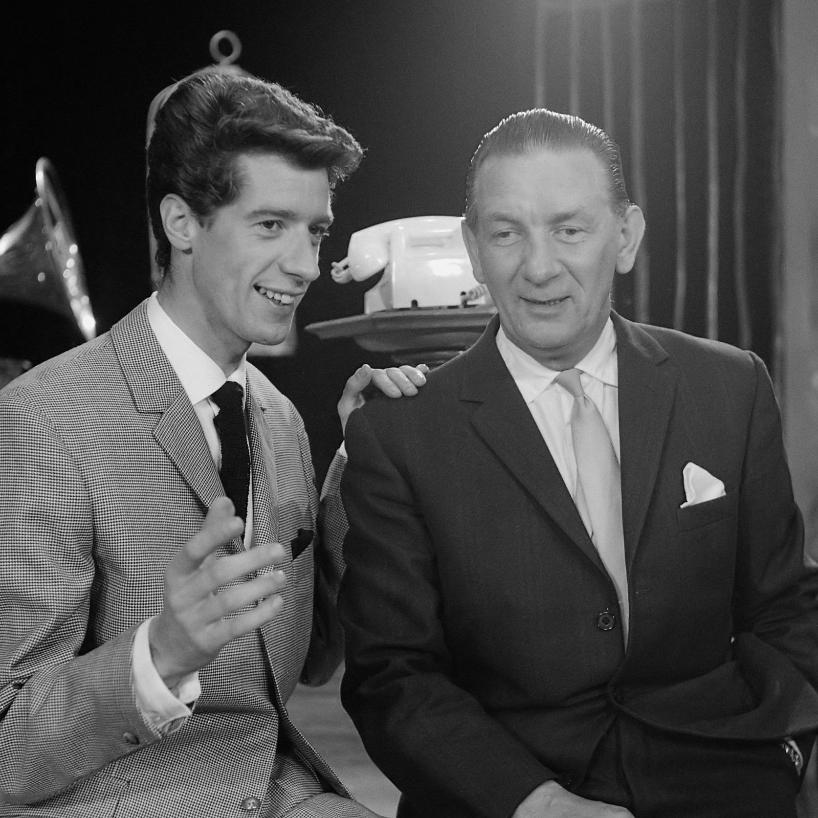 Andre en Rudy Carrell tijdens one-manshow van Rudy 20 augustus 1960